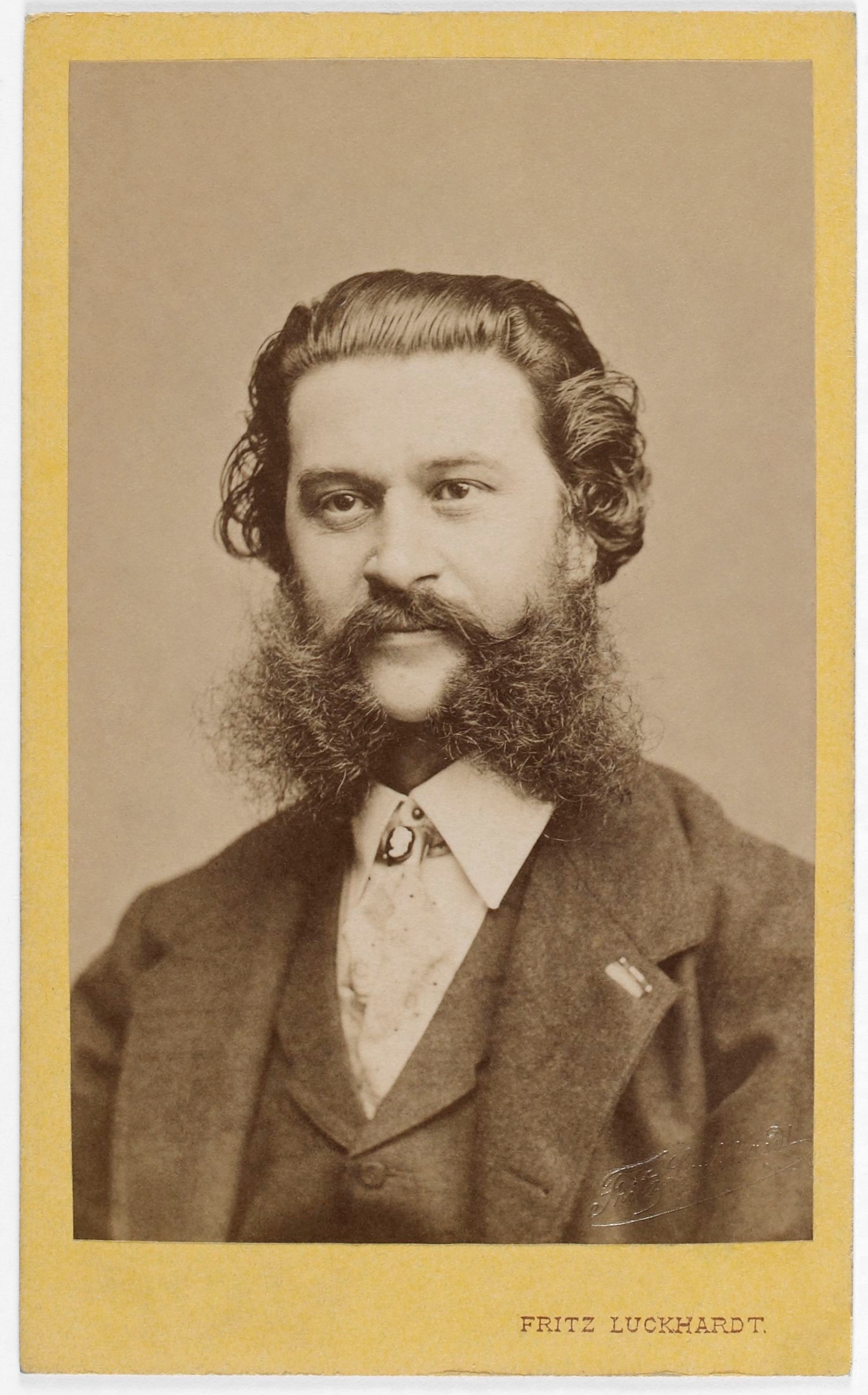 Photograph of Johann Strauss II by Fritz Luckhardt